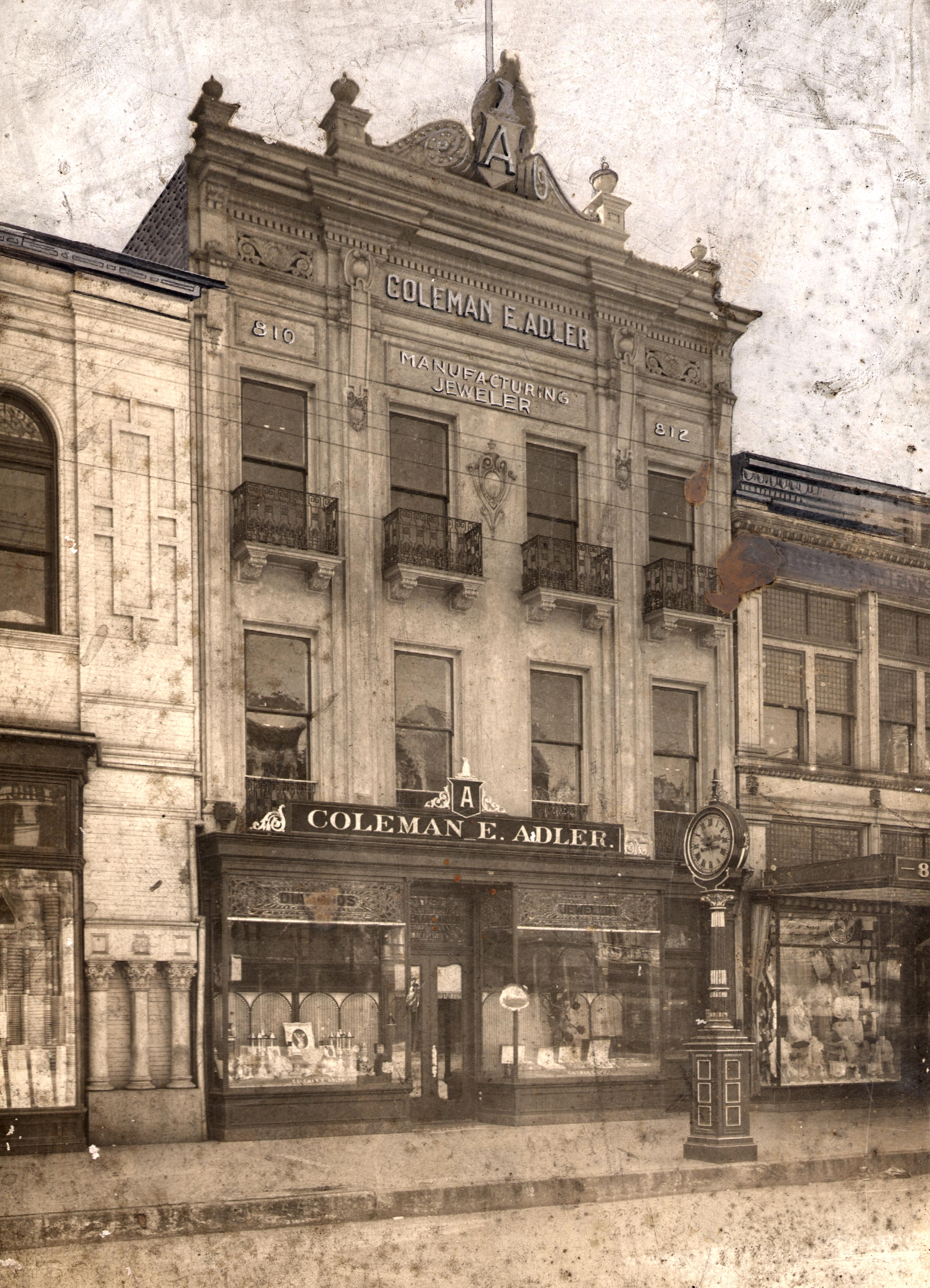 Adler's of New Orleans at 810 Canal Street, ca. 1905. Scan of original family photo.